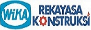 WIKA Rekayasa Konstruksi